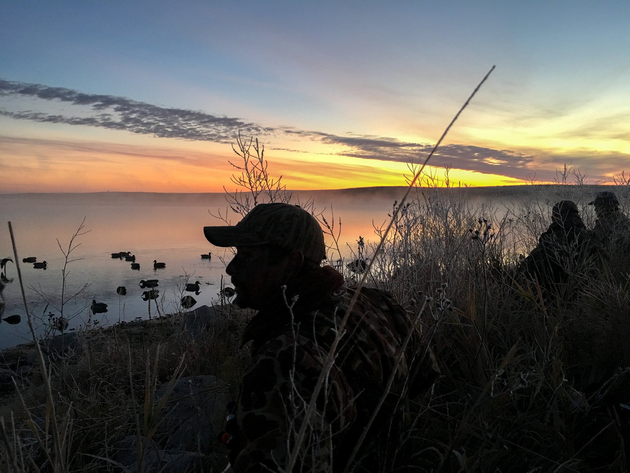 Duck hunter, Virginia State Parks